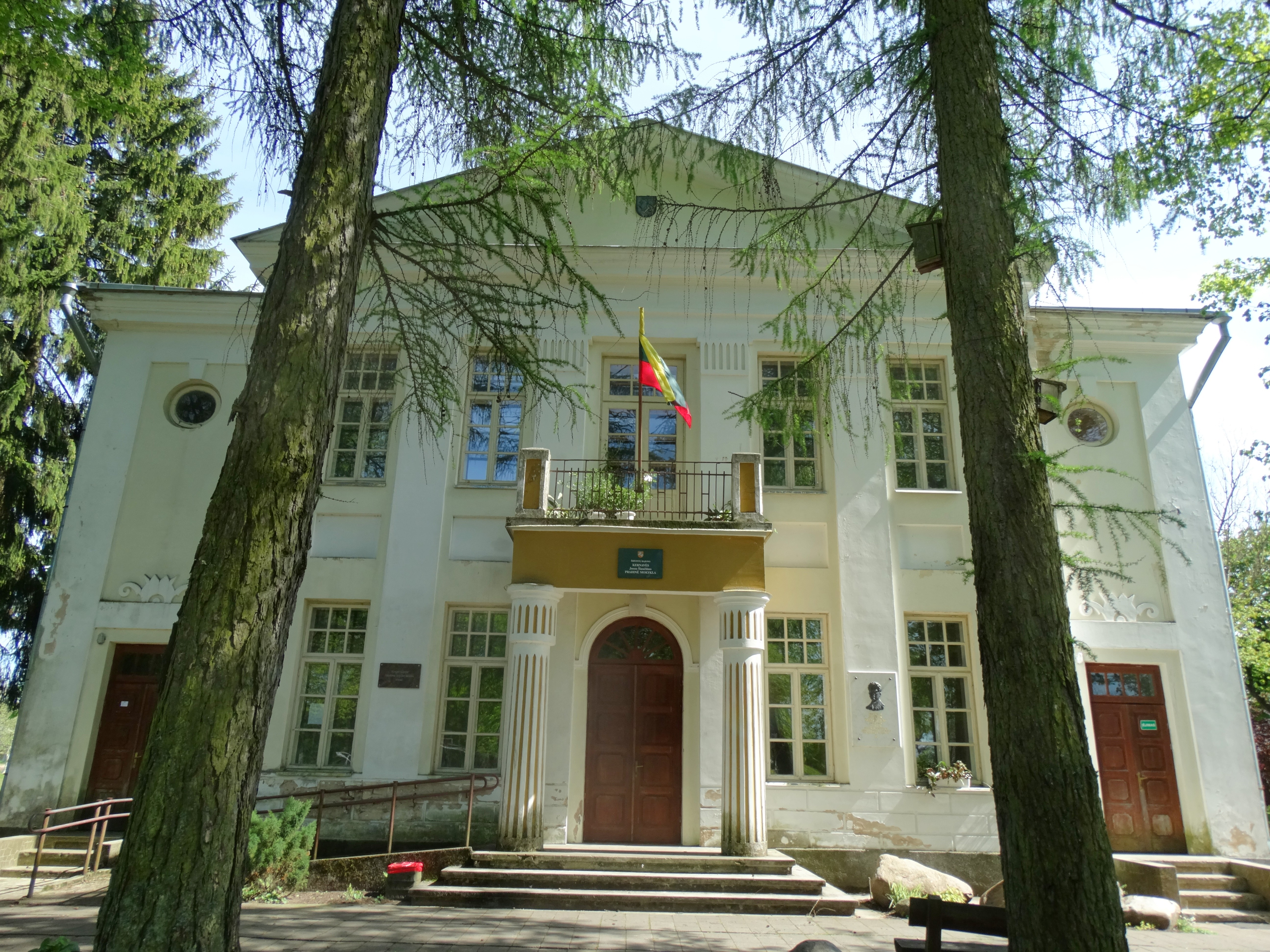 School, Kernavė, Širvintos District, Lithuania